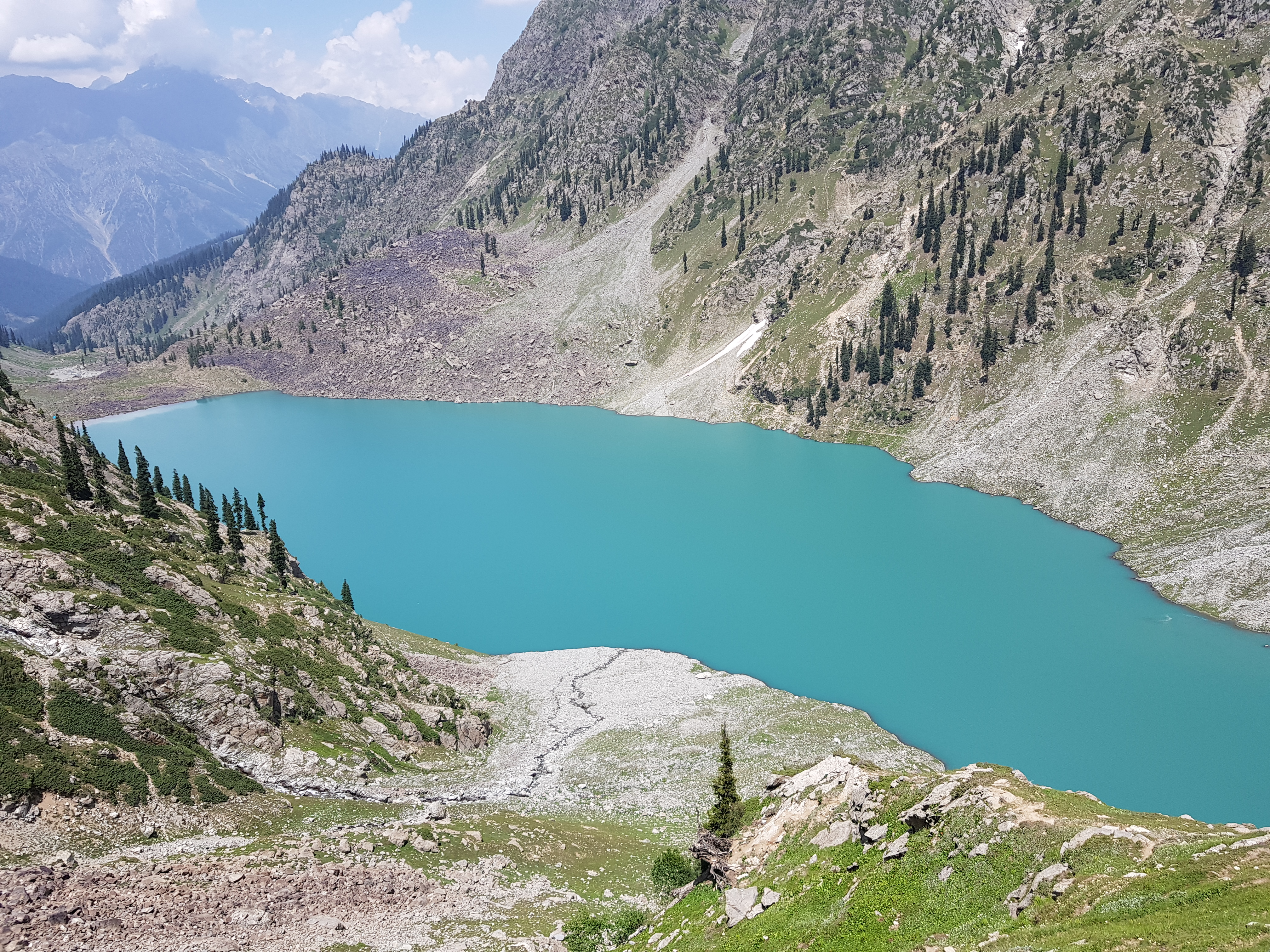 Kundol Lake, Utror Valley- Picture taken from Right wing mountain.